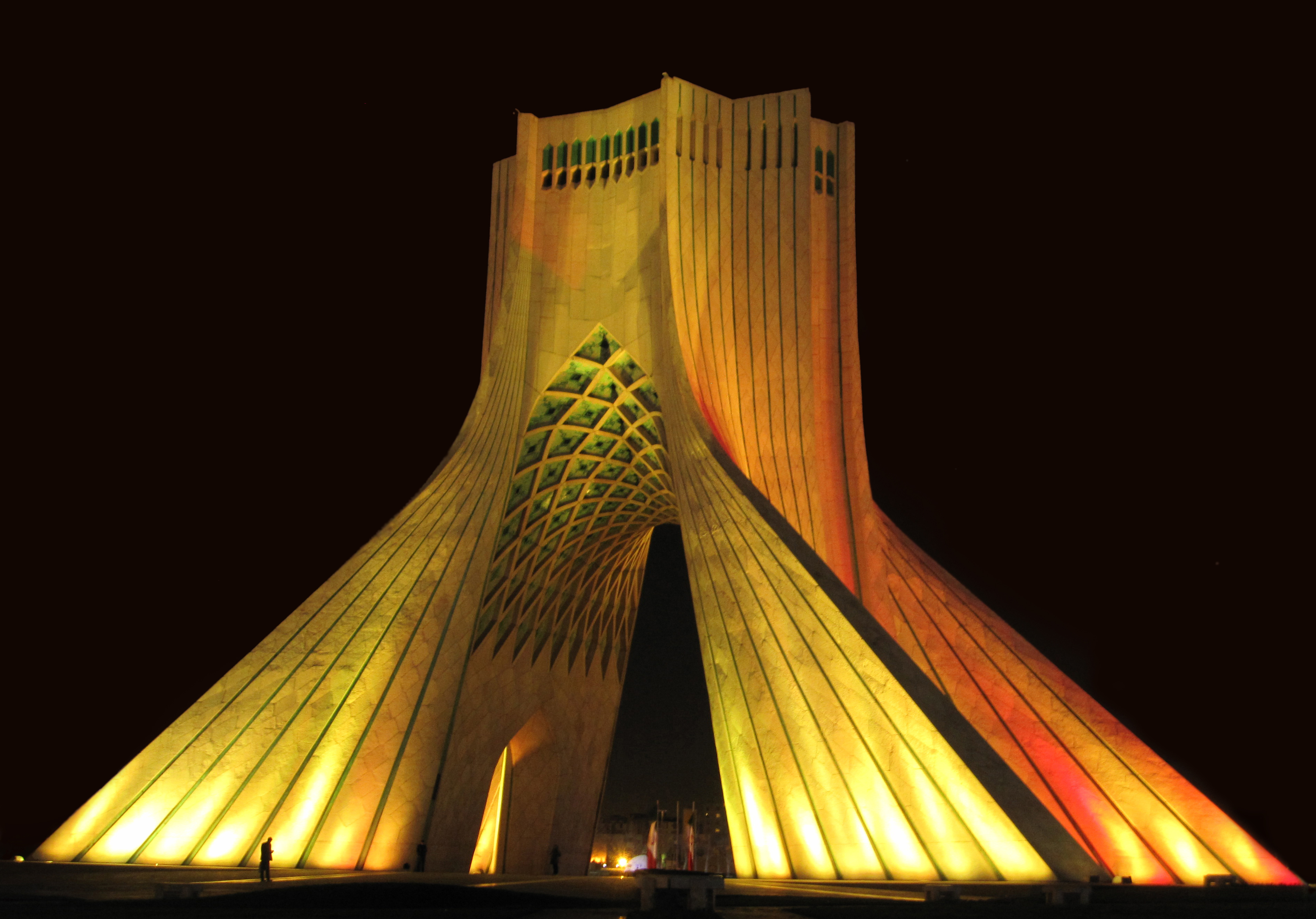 Iran - Tehran - Azadi Tower